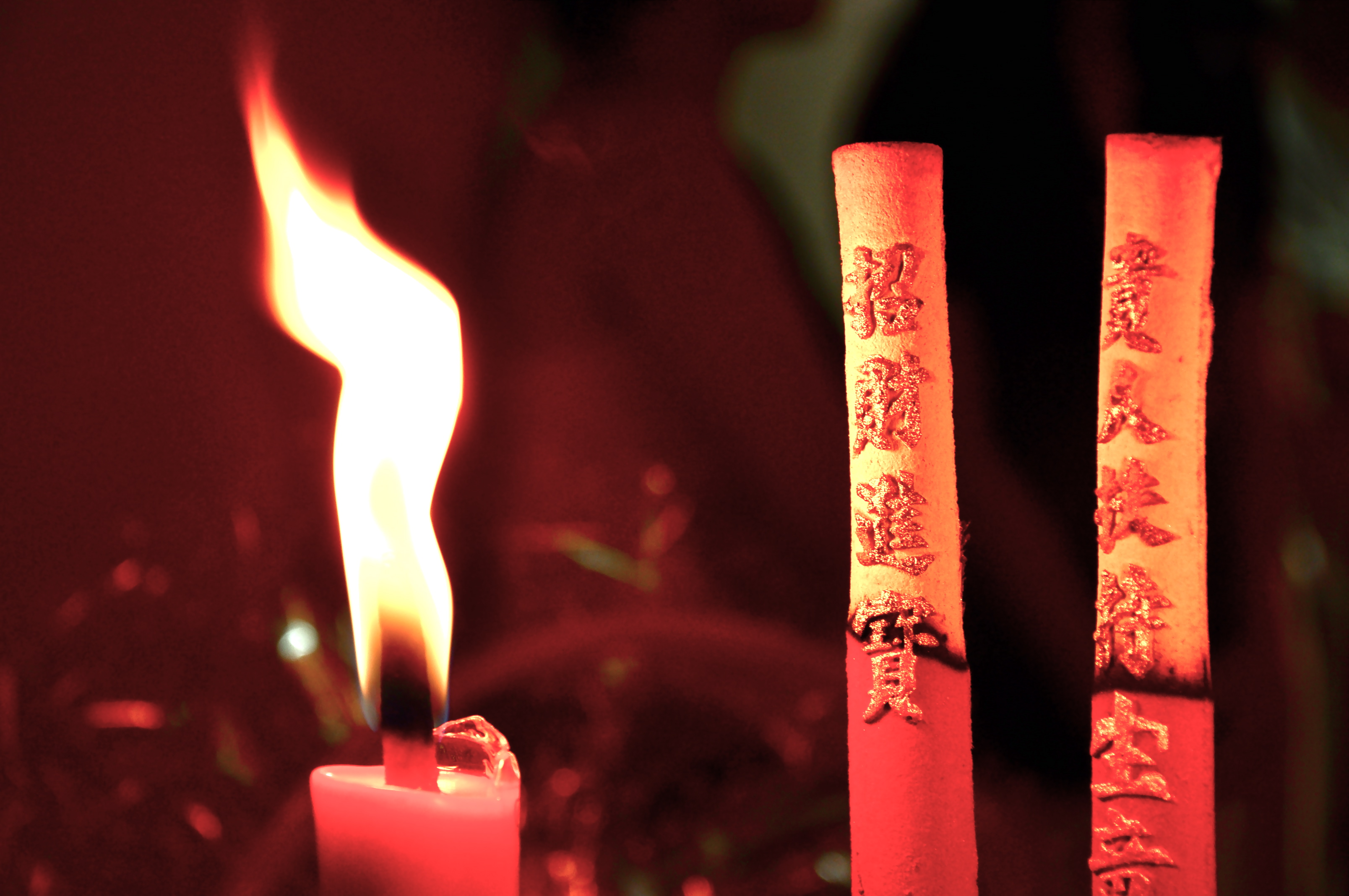 Joss sticks burnt during a Chinese wedding ceremony. Kuala Lumpur, Malaysia.